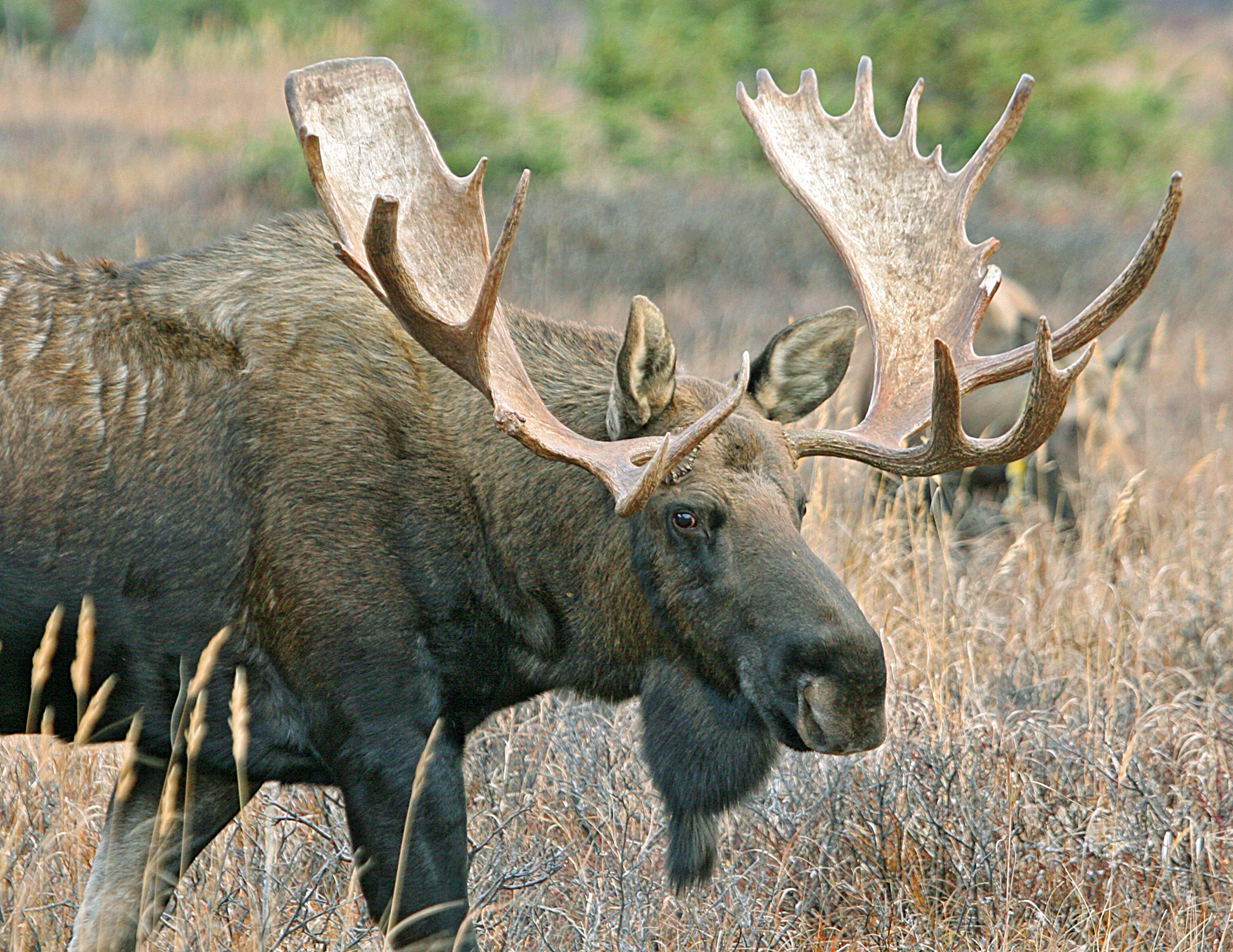 Original description: Title: Bull Moose (photo was taken in Chugach State Park, Alaska.) Alternative Title: Alces alces Publisher: United States Fish & Wildlife Service Contributor: ASSISTANT REGIONAL DIRECTOR-EXTERNAL AFFAIRS Language: EN - ENGLISH Rights: (public domain) Audience: (general) Subject: Moose